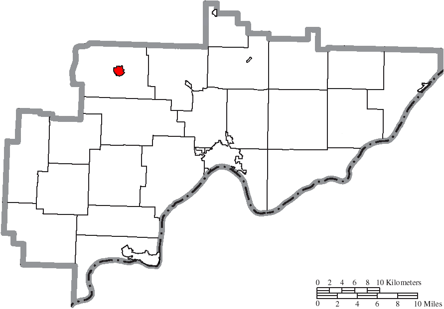 Map of the municipal and township boundaries of Washington County, Ohio, United States, as of the 2000 census, with the location of the village of Beverly highlighted. Township borders are shown only in unincorporated areas in order to differentiate incorporated and unincorporated areas more clearly.